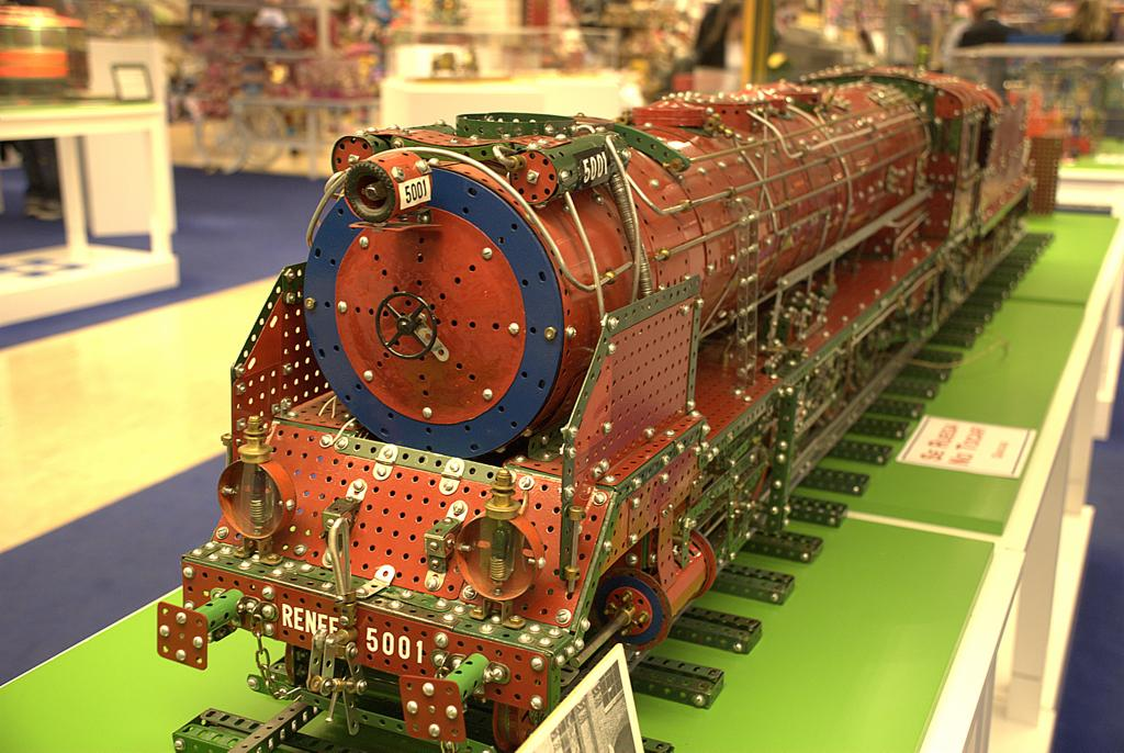 A model steam locomotive built with Meccano at a Meccano exhibition in Madrid.